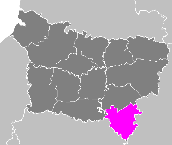 Maps of arrondissements and cantons of France: Arrondissement de Château-Thierry.PNG